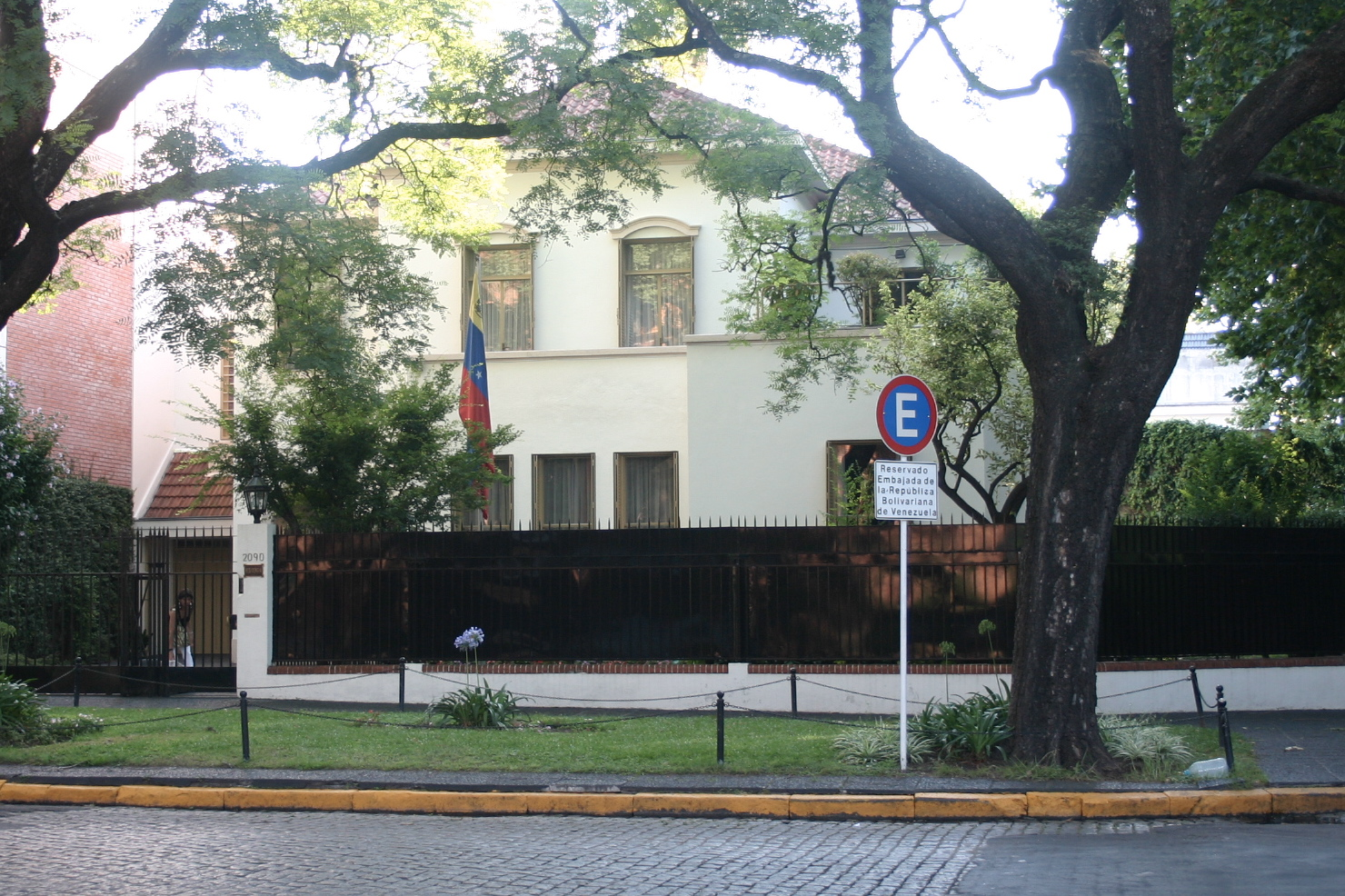 Venezuelan embassy in Buenos Aires.